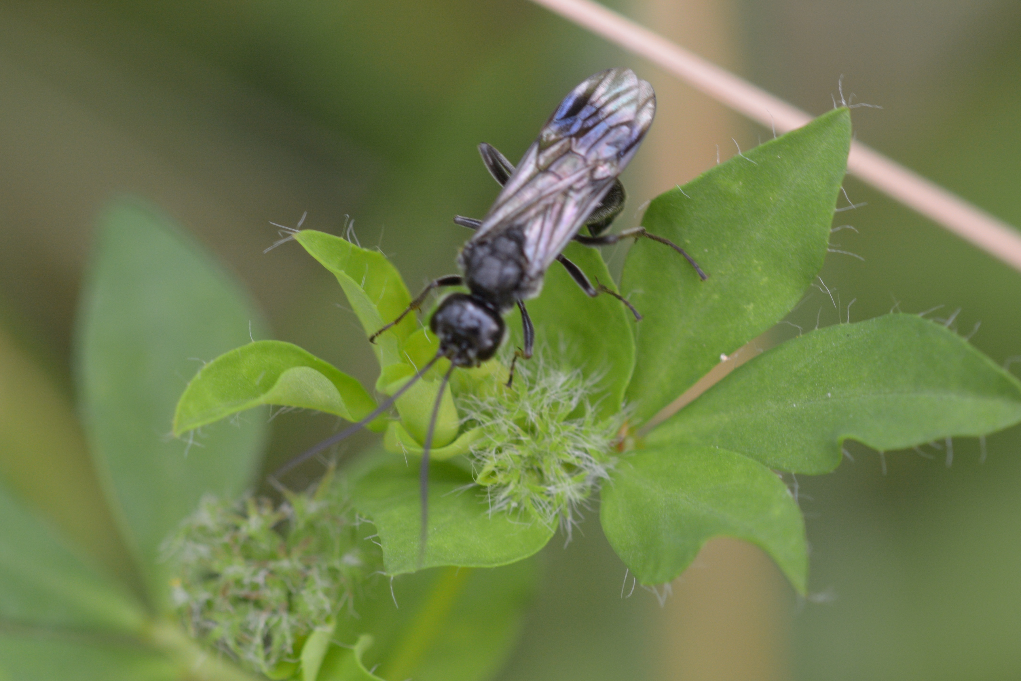 Pseudogonalos hahnii in Bahrenfeld, Hamburg. Female Probably egg deposition on Lotus corniculatus.